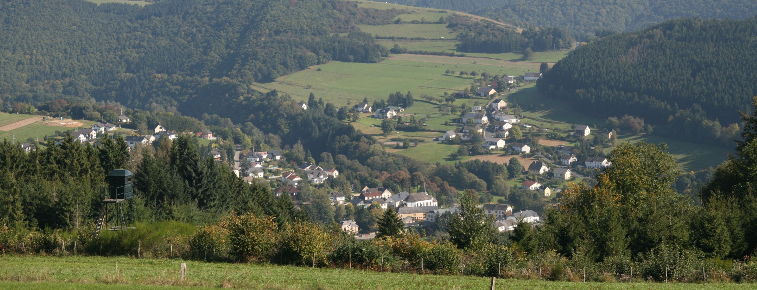 Panorama on Eisenbach (Untereisenbach, Obereisenbach and Übereisenbach), Luxembourg.